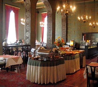 The restaurant of Grand Hotel Tammer in Tampere, Finland